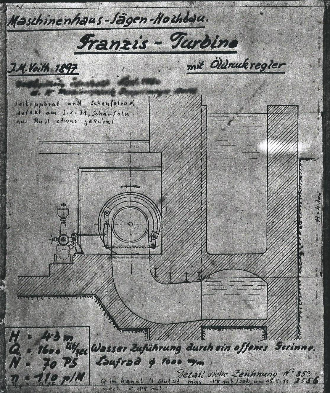 Technical drawing of 70 horsepower turbine in the former Color-weaving (now office building) of the Company: Franz Martin Haemmerle (FMH), Sägerstrasse 4 in 6850 Dornbirn, Vorarlberg, Austria.